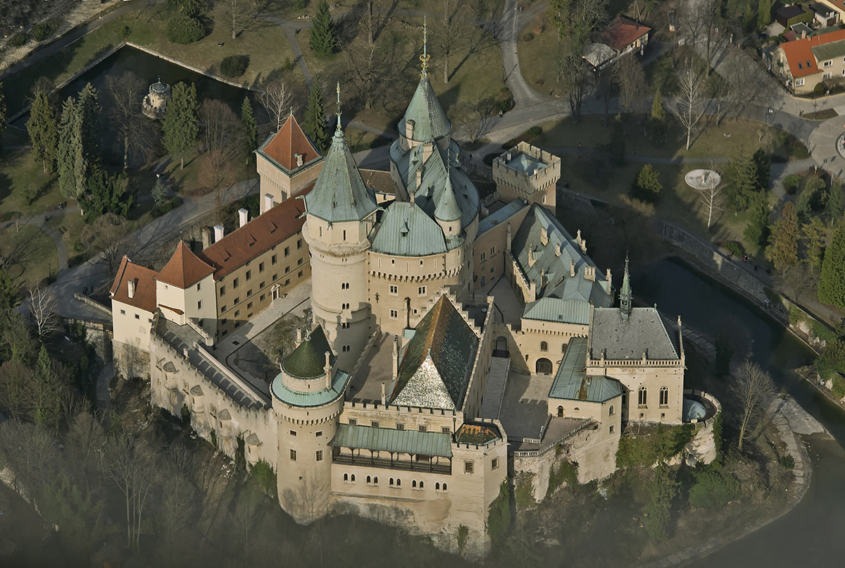 Slovakia Bojnice (The photo is made of a glider "Duo Discus xlt")